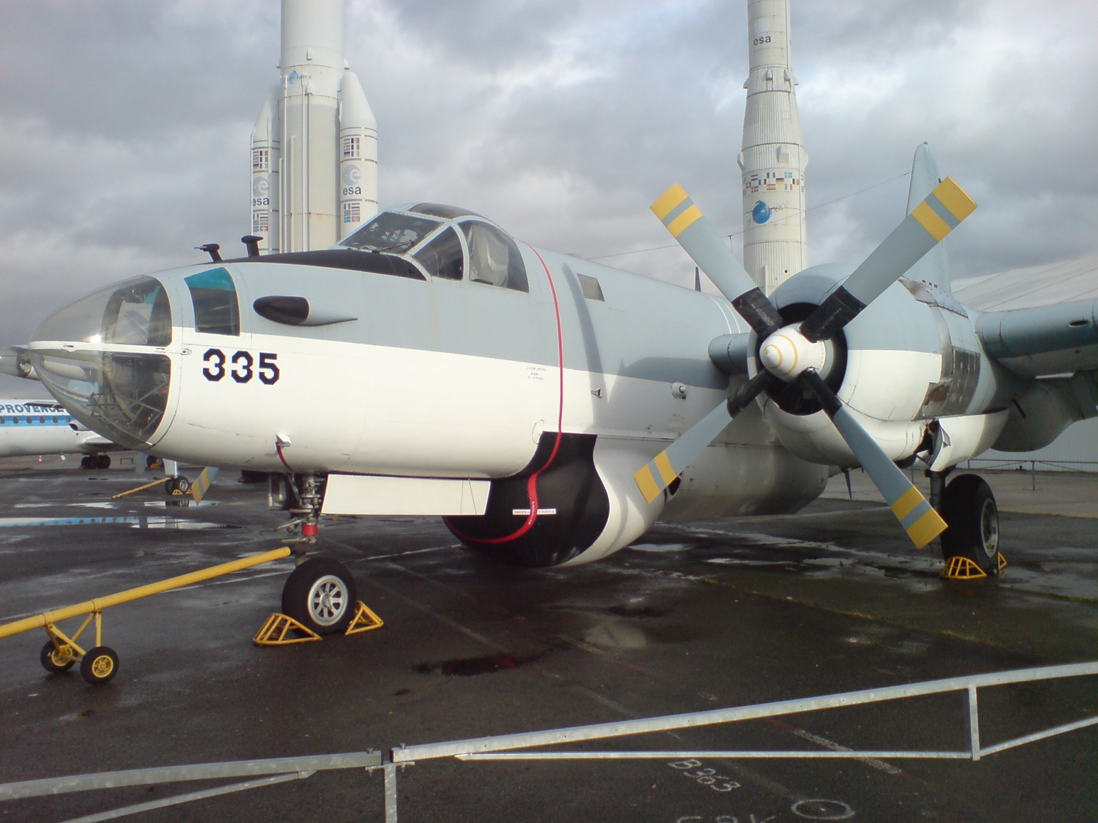 A former French Lockheed SP-2H Neptune (U.S. Navy BuNo 148335, c/n 726-7264) at the Musée de l'Air et de l'Espace aerospace museum in Paris, France. It wears the markings of Flottille 25F which operated the Neptune from 1958 to 1983 from Base d'aéronautique navale de Lann-Bihoué near Lorient, France. Looking roughly northwest.